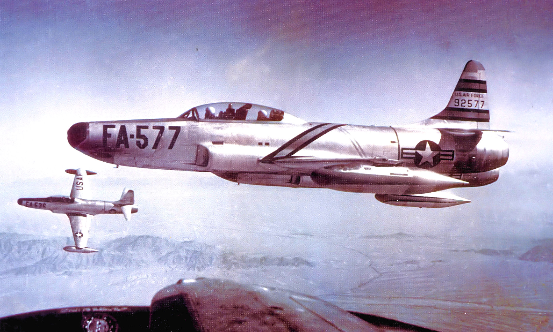 317th Fighter-Interceptor Squadron Lockheed F-94A-5-LO 49-2577 1951 Stationed at McChord AFB, Washington. Flying over Nevada The 317th FIS was the 1st Squadron with F-94A Starfire